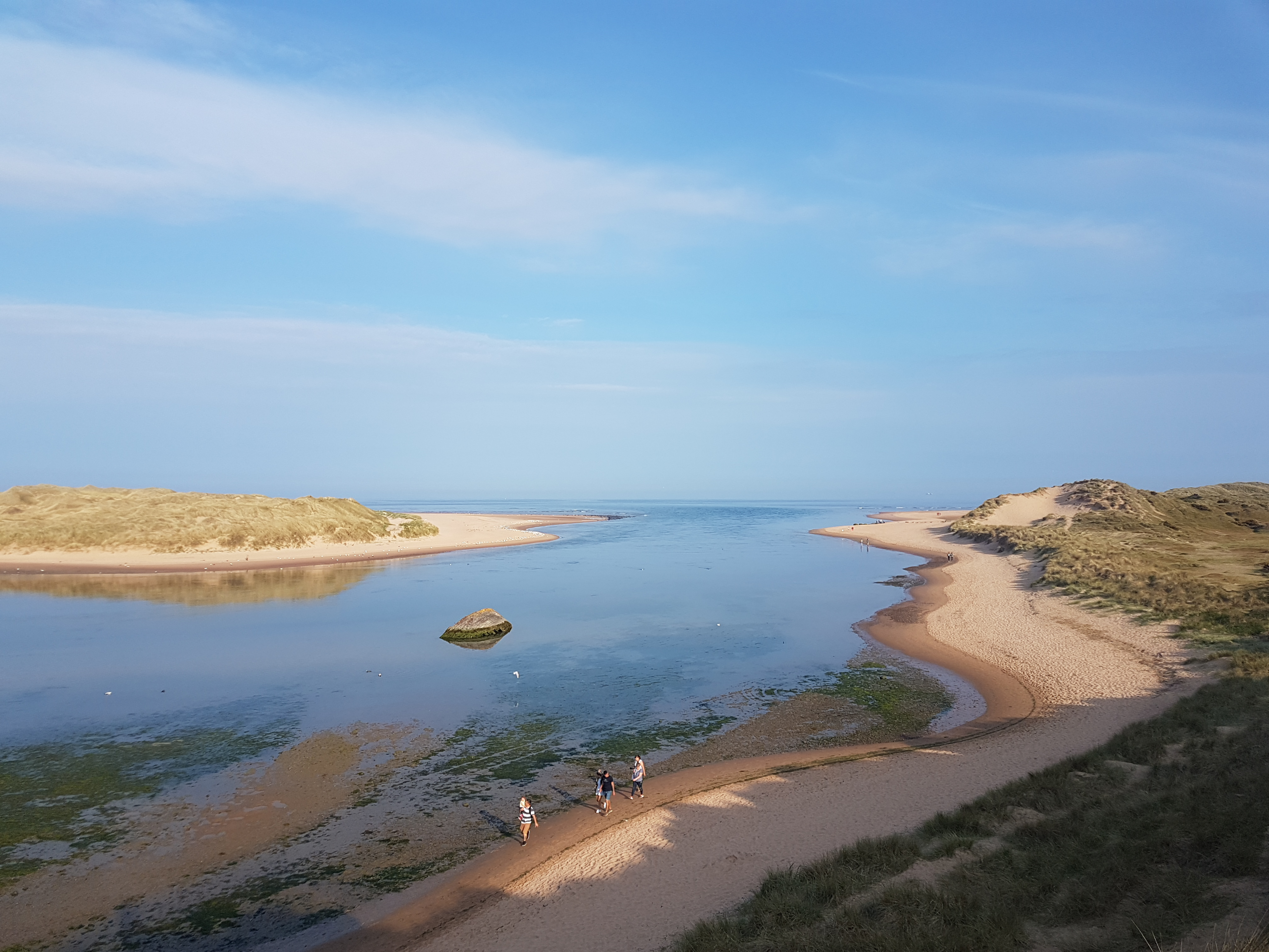 Newburgh beach, Aberdeenshire